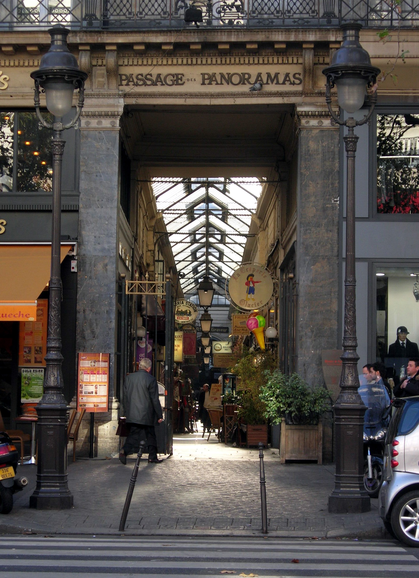 Description =Passage des Panoramas Source =Photo taken by Remi Jouan Date =Novembre 2006 Author =Remi Jouan